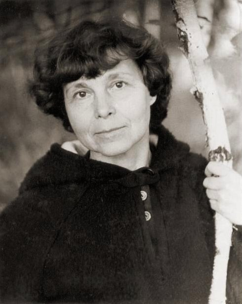 Russian composer Sofia Gubaidulina in Sortavala